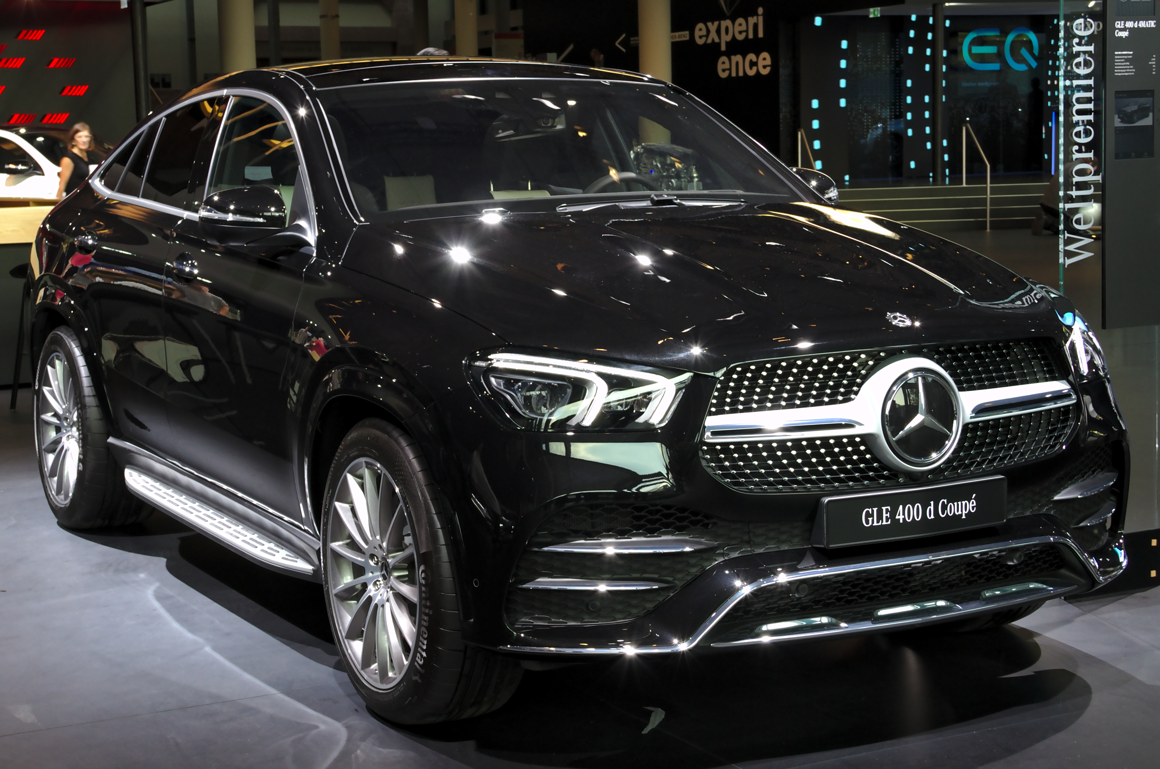 Mercedes-Benz_C167 at IAA 2019